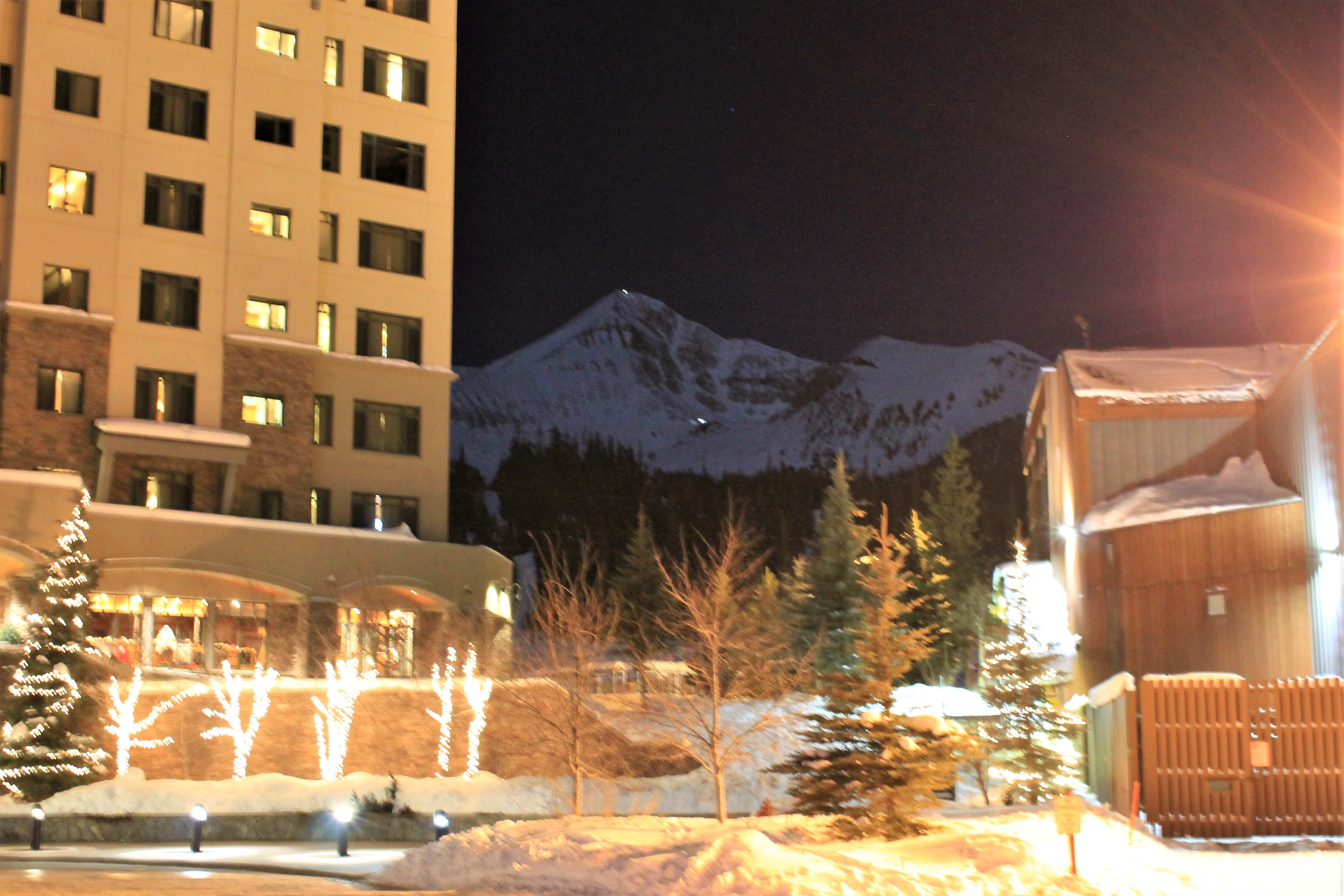 This is a photo of Lone Peak seen from the Big Sky Resort hotels in January of 2018.